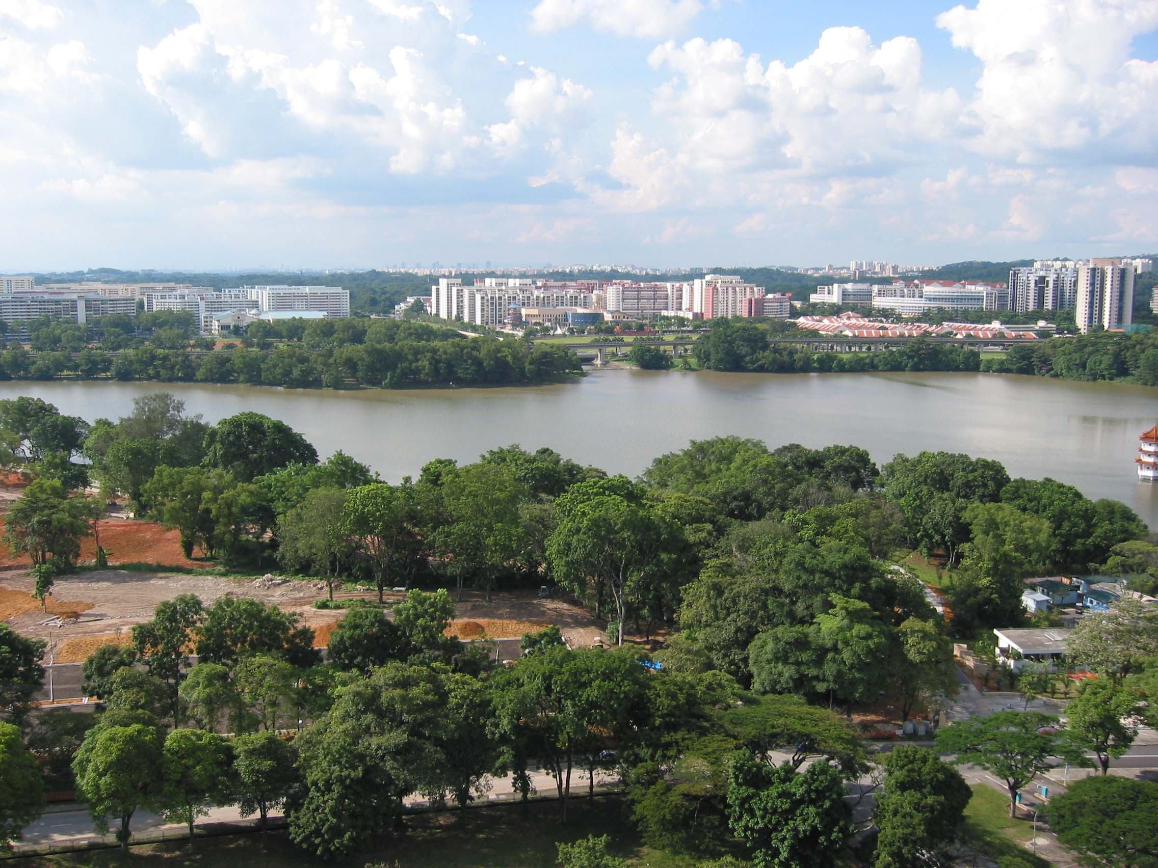 An aerial view of the northern to middle part of Jurong Lake in Jurong East, Singapore.